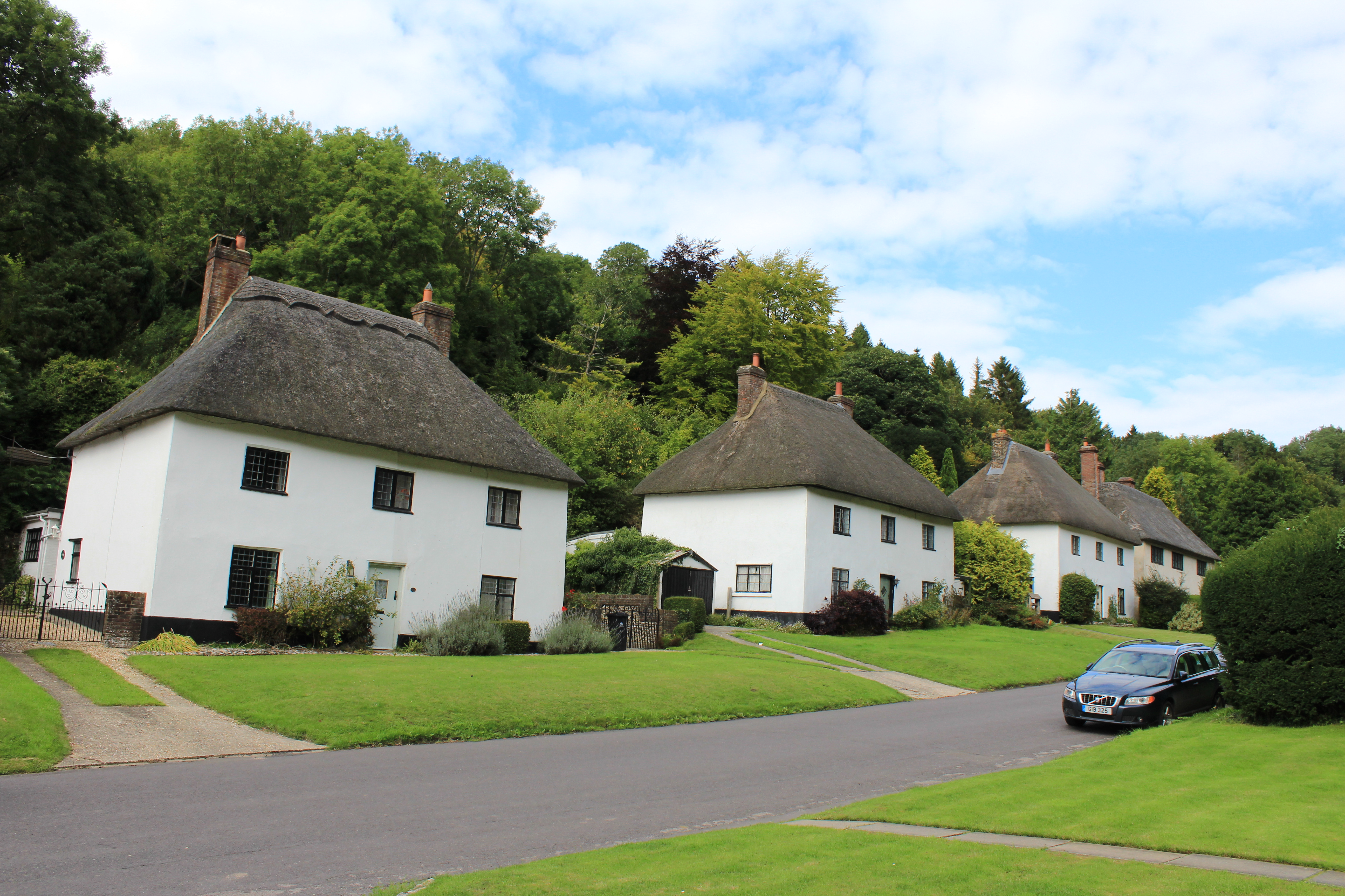 Milton Abbas, Dorset, England on 1 September 2015. These houses are near the top of the main street in the 18th-century planned village.